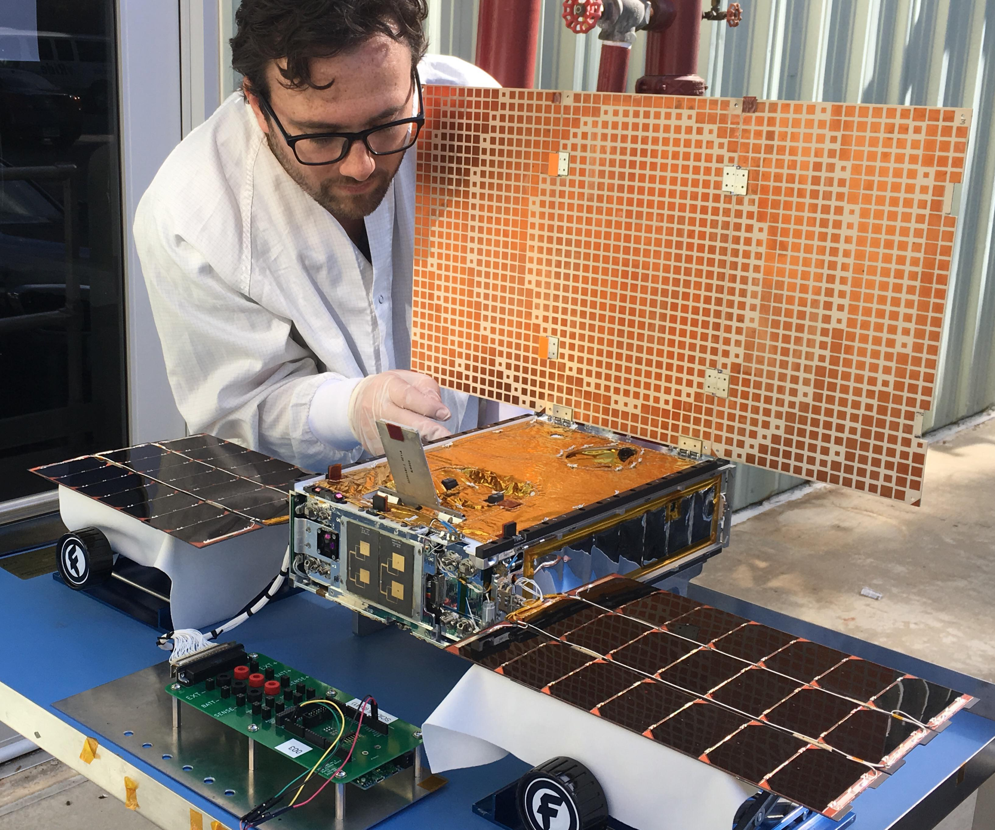 Engineer Joel Steinkraus uses sunlight to test the solar arrays on one of the Mars Cube One (MarCO) spacecraft at NASA's Jet Propulsion Laboratory. The MarCOs will be the first CubeSats -- a kind of modular, mini-satellite -- flown into deep space. They're designed to fly along behind NASA's InSight lander on its cruise to Mars. If they make the journey to Mars, they will test a relay of data about InSight's entry, descent and landing back to Earth. Though InSight's mission will not depend on the success of the MarCOs, they will be a test of how CubeSats can be used in deep space.